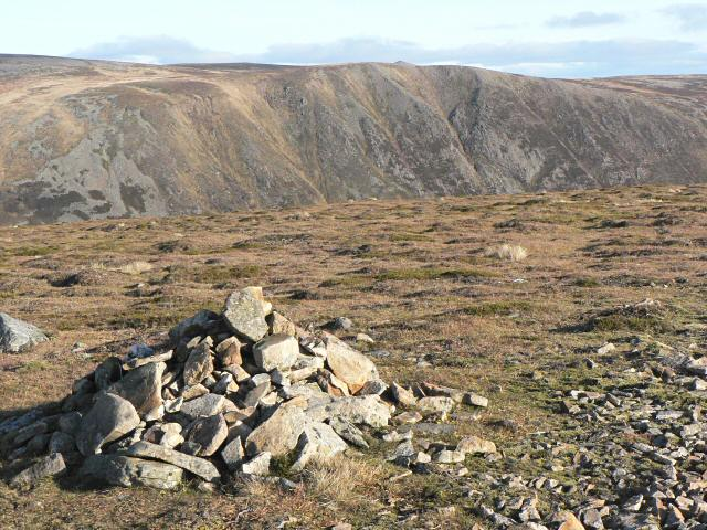 Cairn on Carn an Tuirc This cairn marks the start of the track down to Glen Callater. It is well to the east of the path shown on the OS 1:50000 map. Beyond is the steep face of Creag Leachdach, on the other side of Glen Callater.